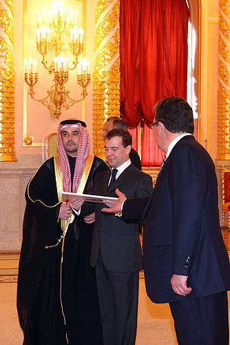 THE KREMLIN, MOSCOW. Presentation ceremony of foreign ambassadors’ letters of credentials. Ambassador of the United Arab Emirates Omar Saif Ghobash presents his letter of credentials to the President.